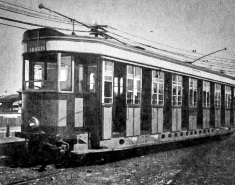 NSWDRTT P-class Tram